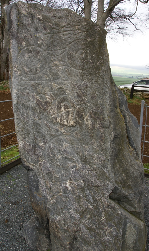 Picardy Symbol Stone (Aberdeenshire, Scotland) - class I Pictish Stone